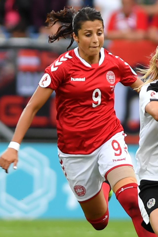 3/8/2017, Breda, Netherlands, sports, soccer, UEFA Women's Euro 2017 - Semifinal - Denmark vs Austria.